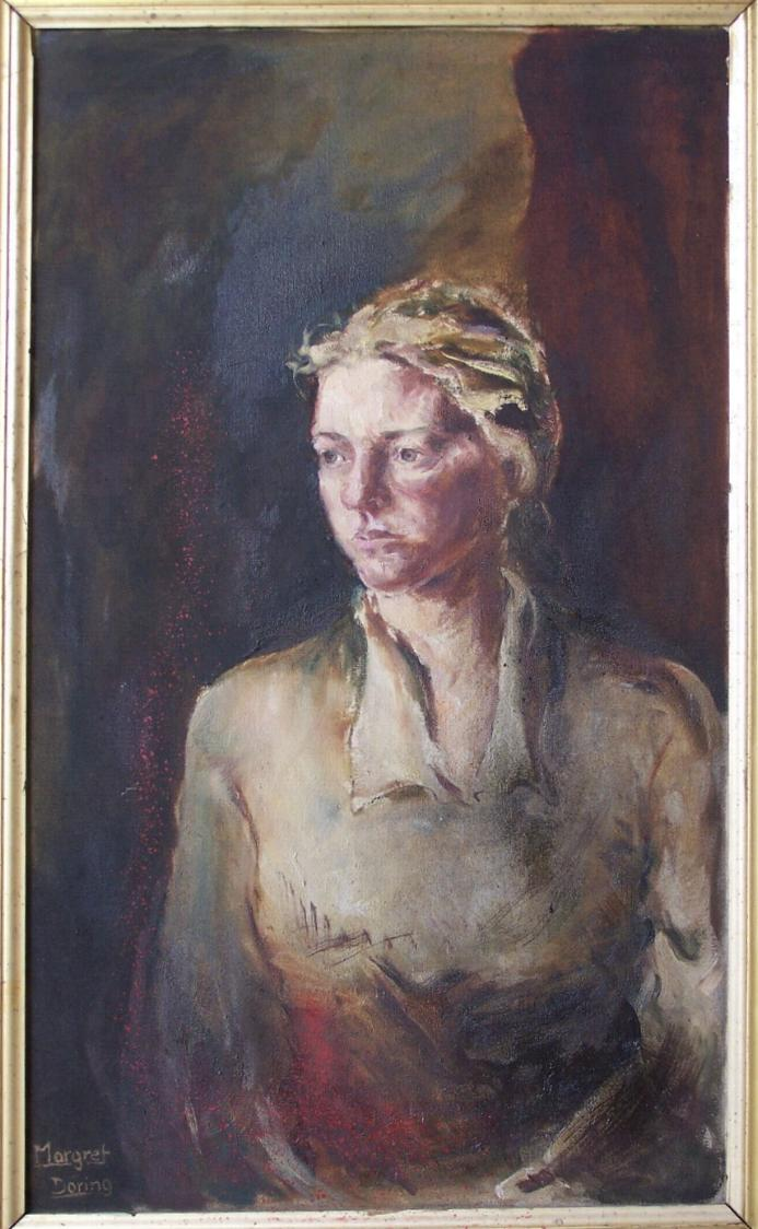 Herta, oil painting, 45x78 cm, 1936 (WV-Nr.615), by Margret Hofheinz-Döring